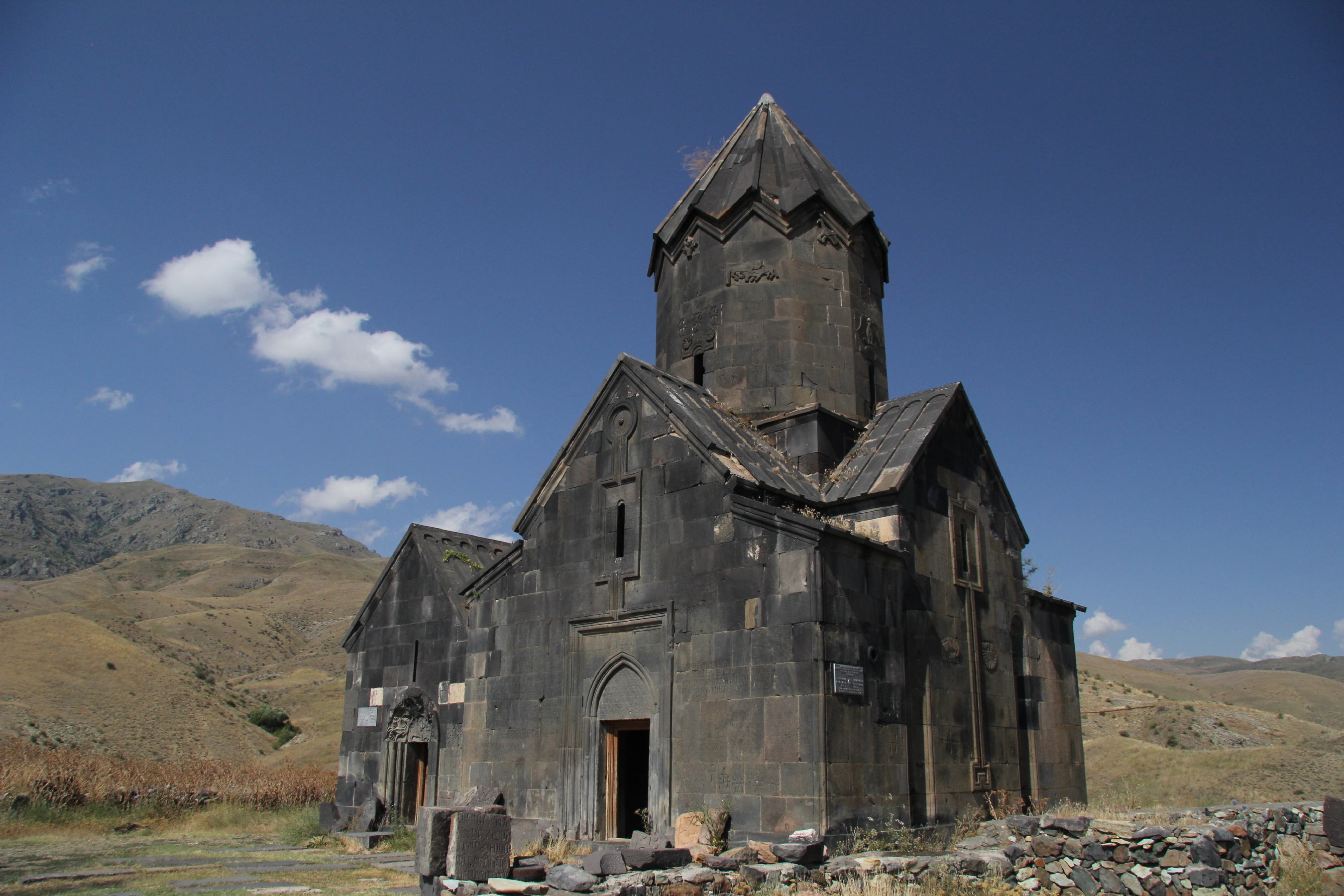 Tanahat_Monastery 42/8